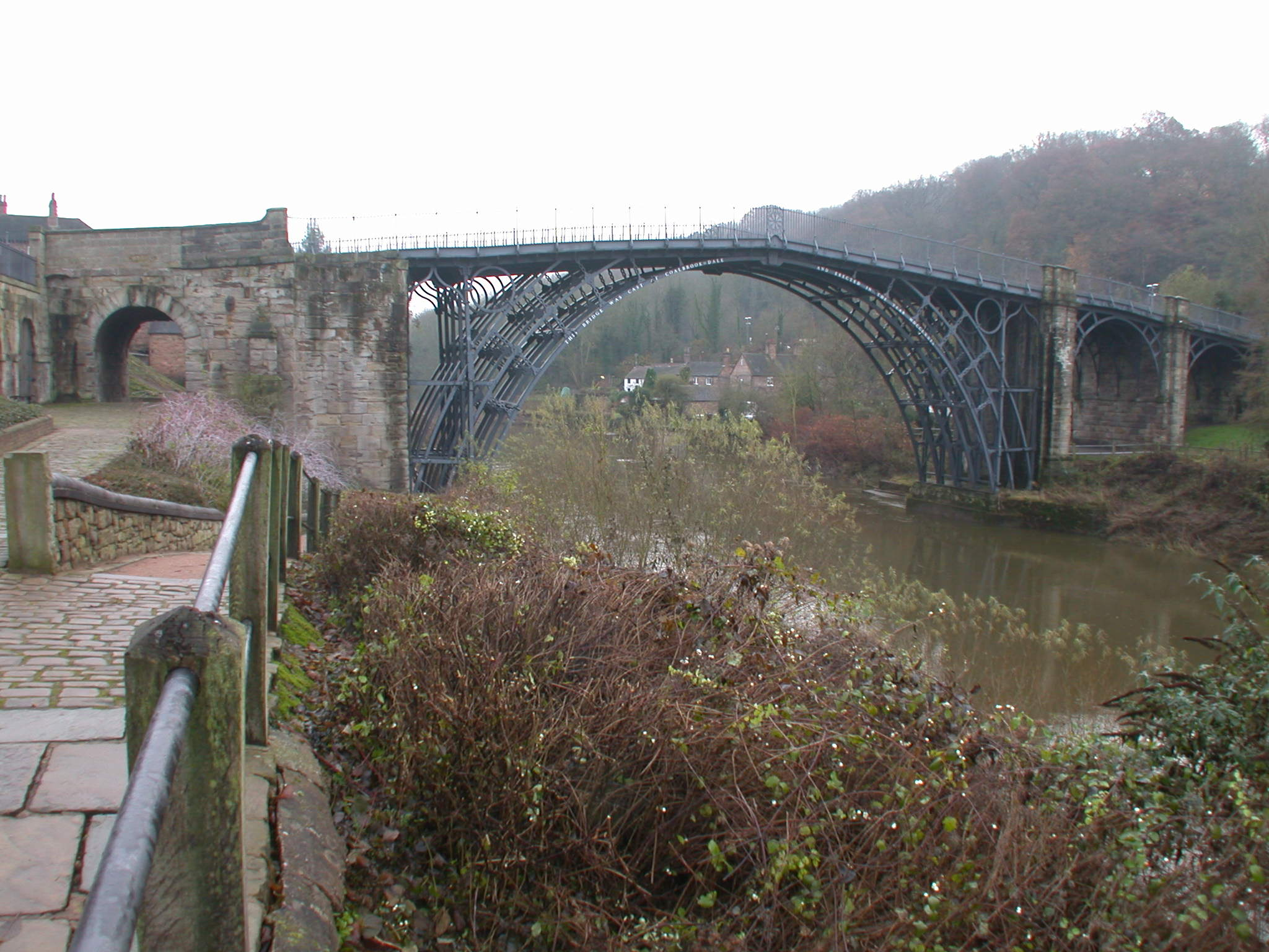 The iron bridge, Ironbridge, UK. Photo: Riggwelter, Dec 2005